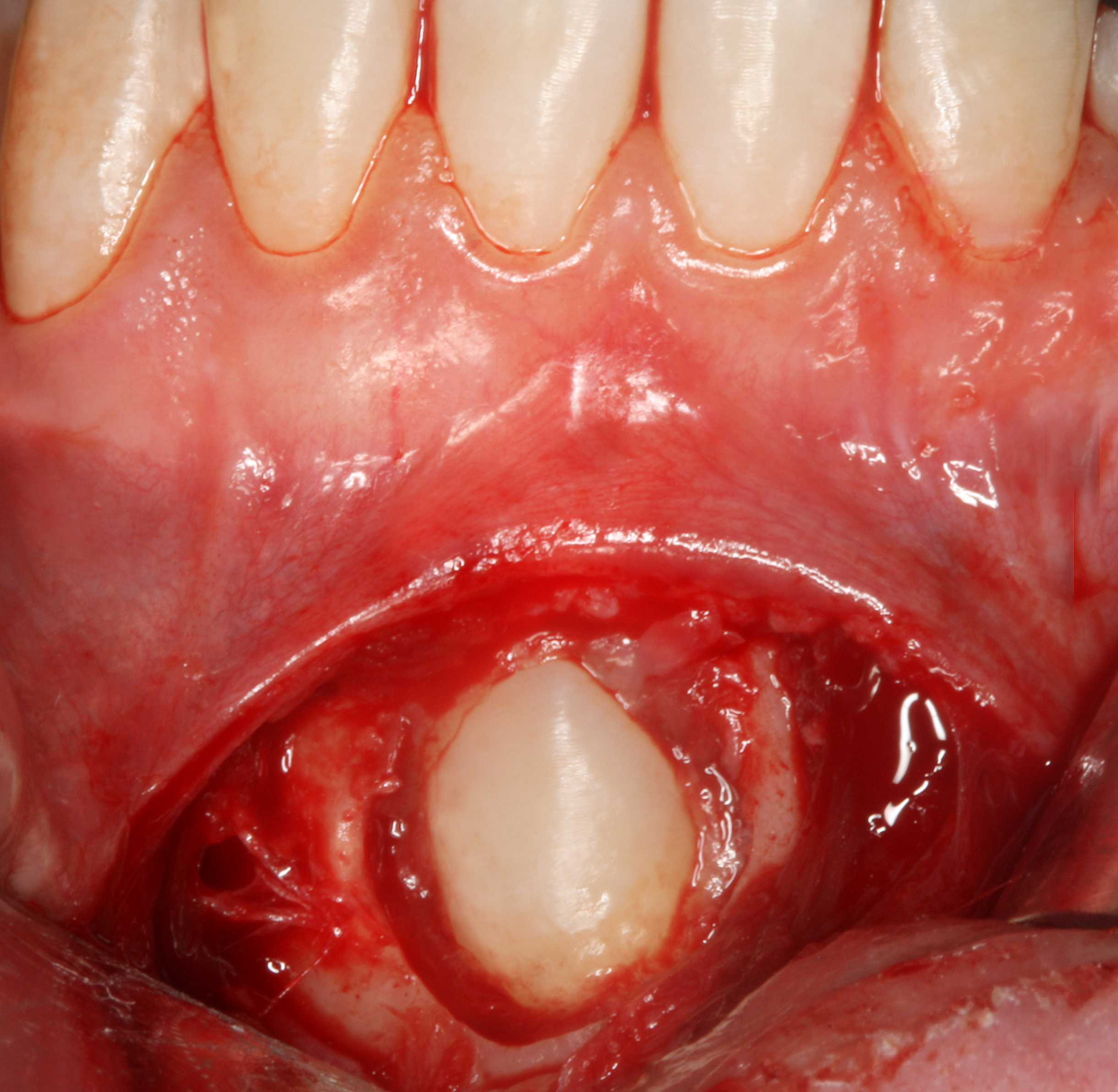 Mandibular canine impacted in the chin Sister file to File:Impacted mandibular canine.Gif